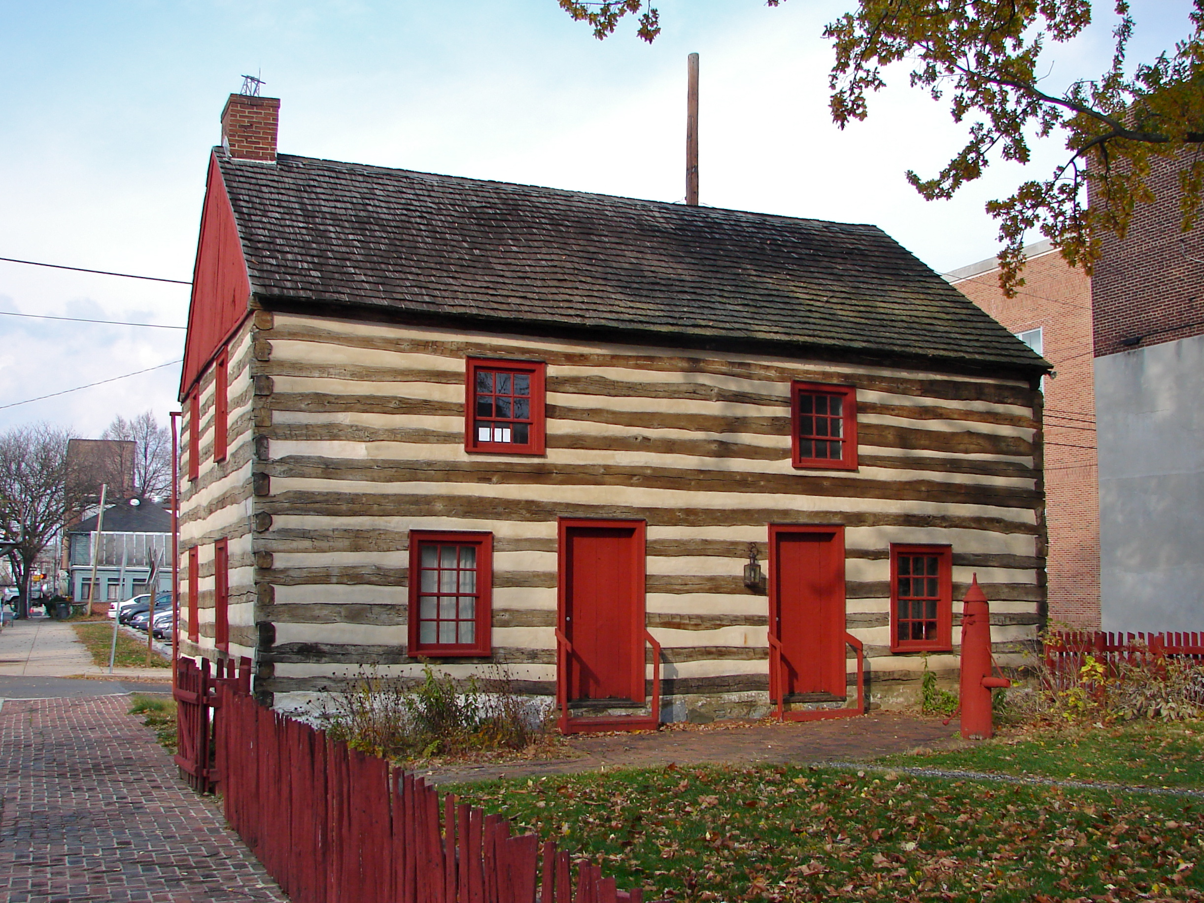 Barnett Bobb House on the NRHP since October 29, 1975. Located at the rear of 157 West Market Street, York in York County, Pennsylvania. Old log cabin that has been moved to this location, behind the Golden Plough Tavern and General Horatio Gates House.